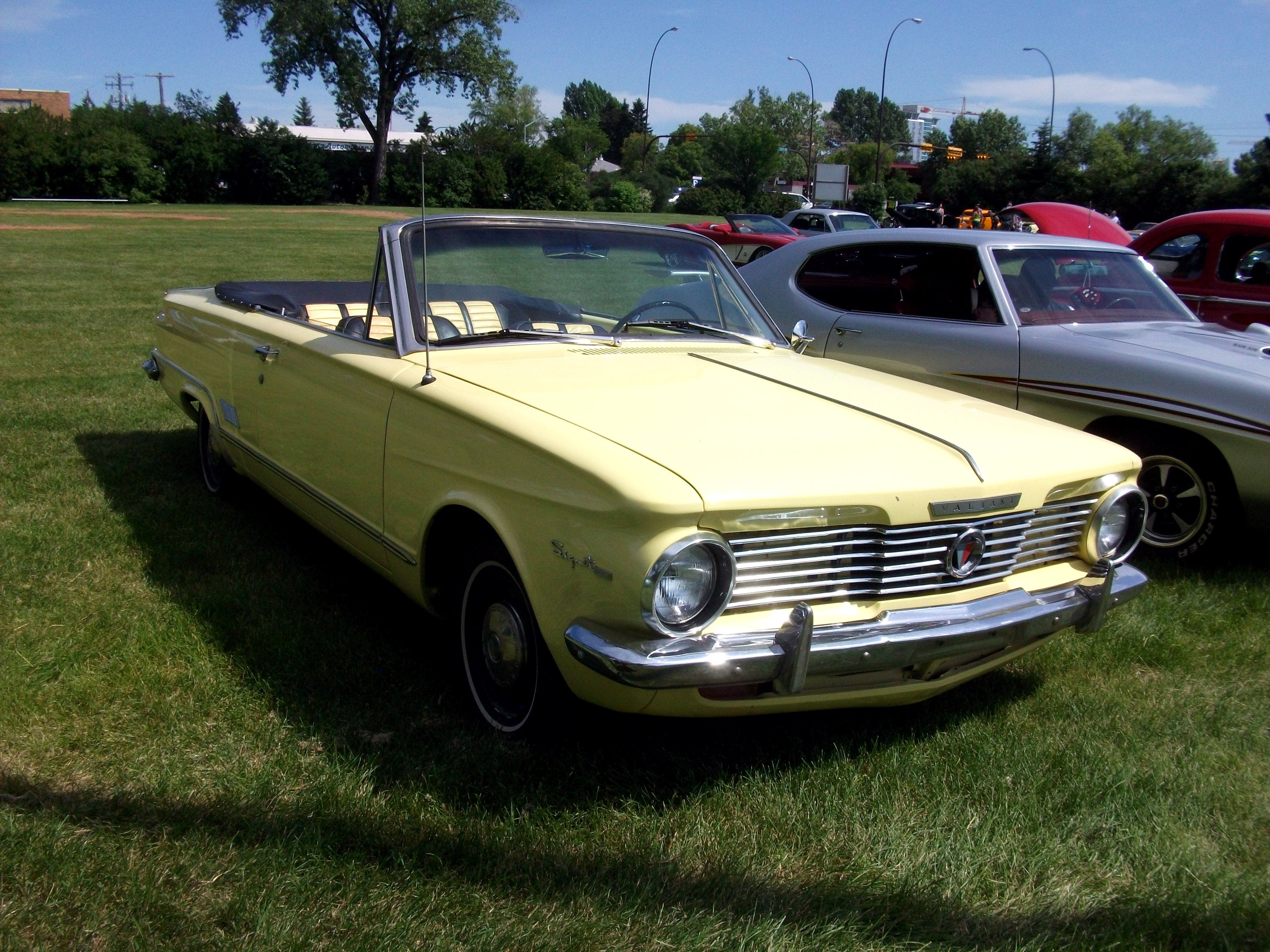 This is a Canadian 1964 Valiant Signet Convertible which means it is a US Dart with a Valiant front clip.